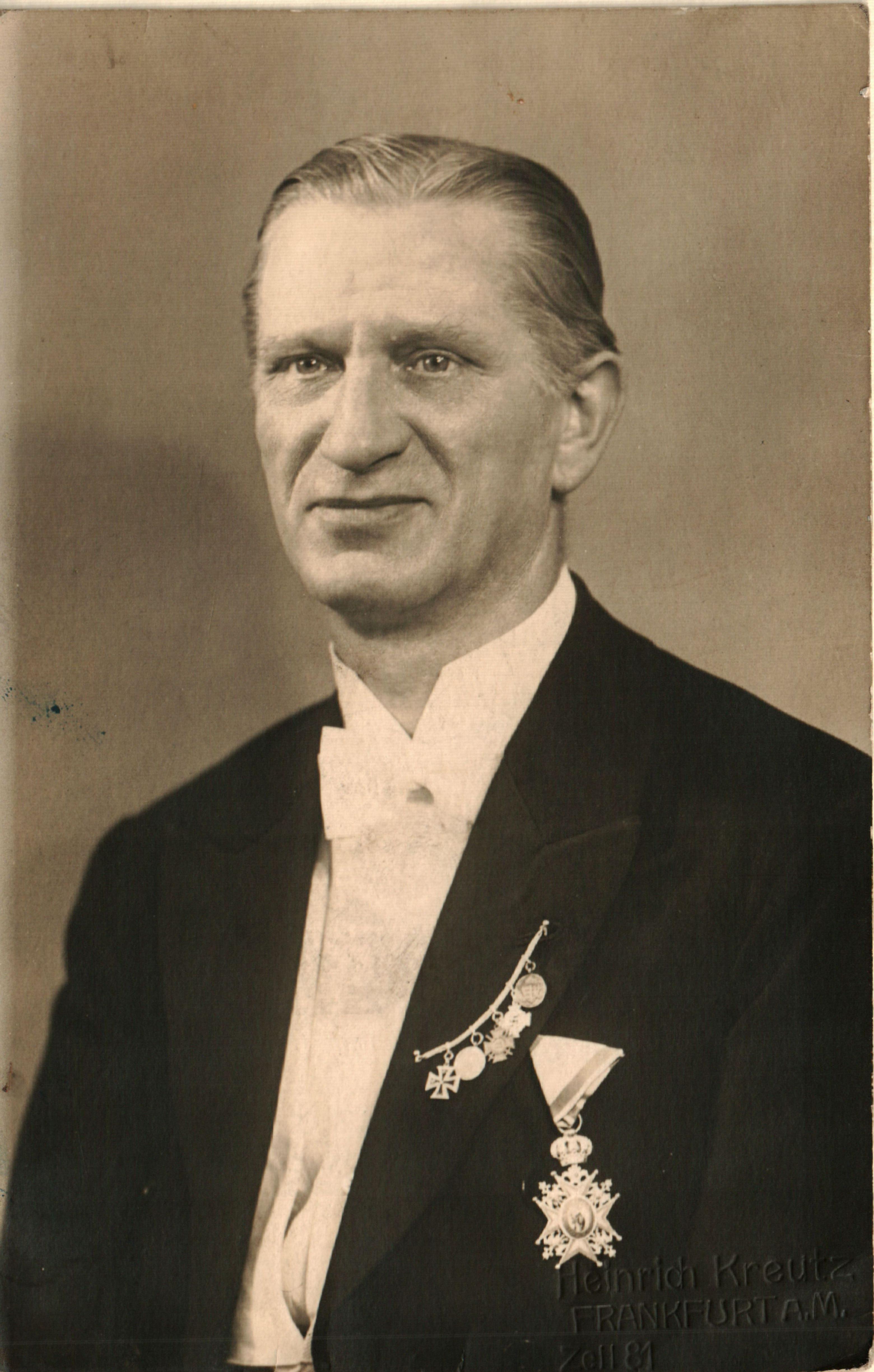 Bulgarian musician Ivan Zagorski, Sofia.